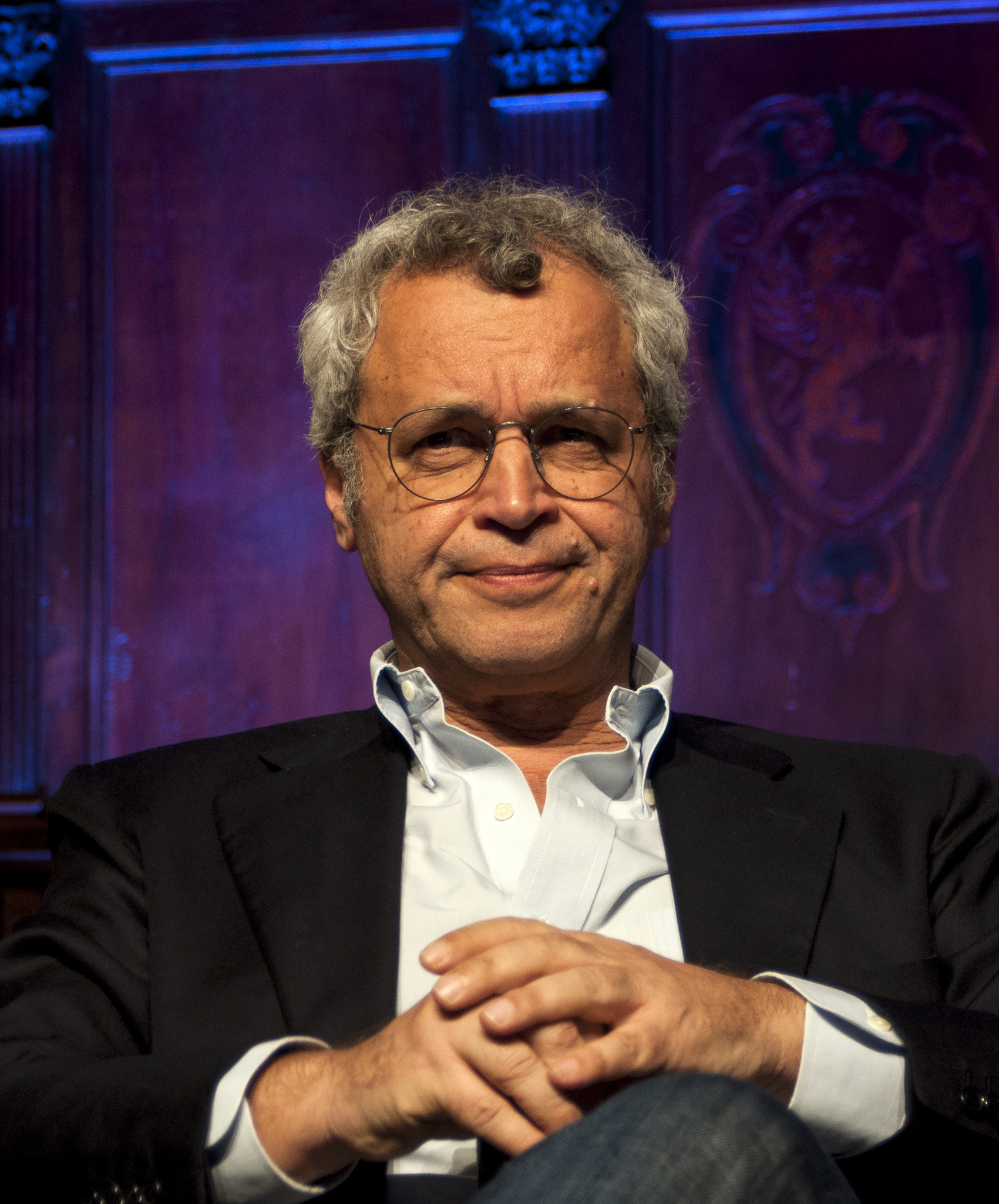 Enrico Mentana, Italian journalist, at the International Journalism Festival in Perugia